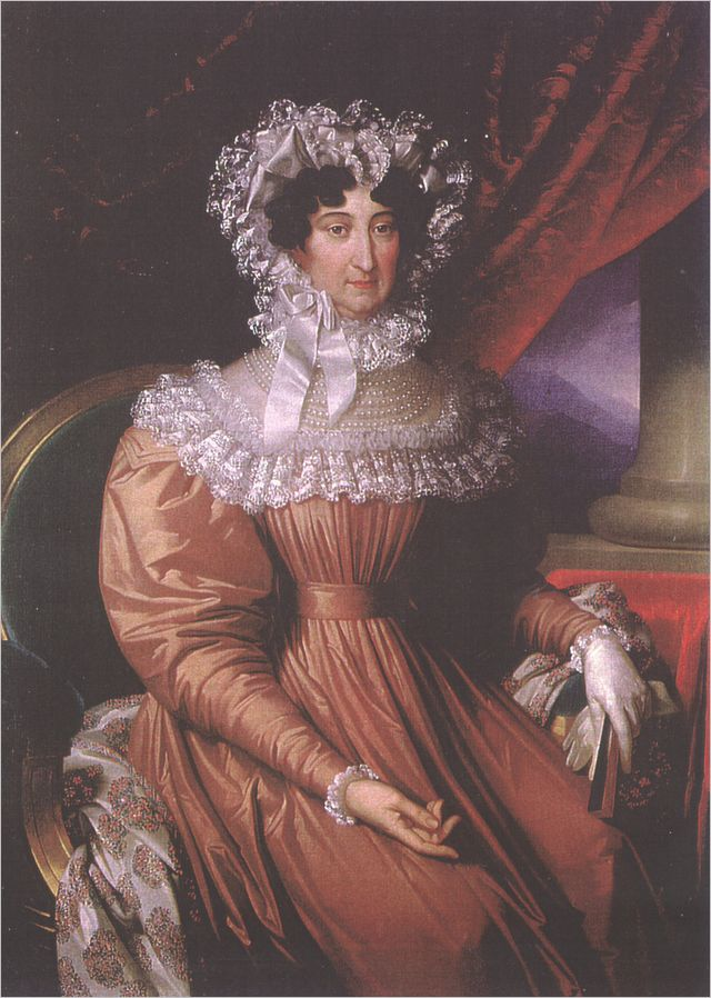 Maria Beatrice Ricciarda d'Este (1750–1829) duchess of Massa and Princess of Carrara, heiress of the Duchy of Modena and Reggio, wife of Archduke Ferdinand of Austria-Este.